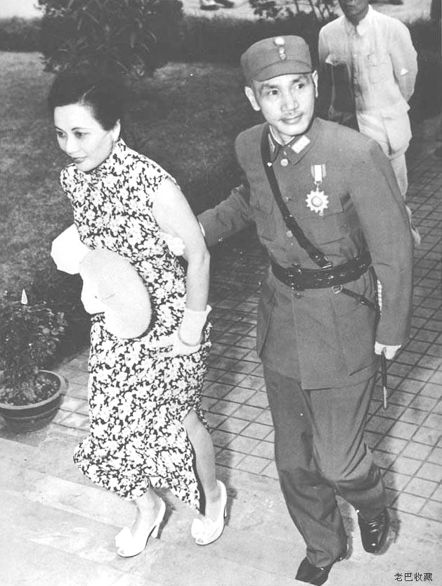 1943 Chiang Kai-shek and Soong May-ling.